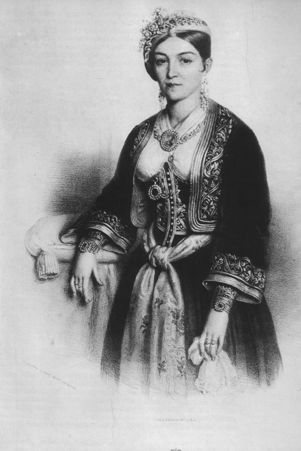 Princess Persida Karađorđević (1813-1873). 1855. Lithography by Uroš Knežević (1811-1876).Српски (ћирилица): Кнегиња Персида Карађорђевић (1813-1873). 1855. литографија. У. Кнежевић-Г. Декер.